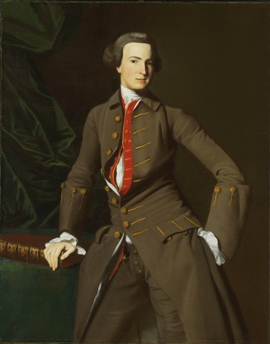 Portrait of the Salem, Massachusetts, merchant Benjamin Pickman Sr. Courtesy of the Yale University Art Gallery, Yale University, New Haven, Conn.